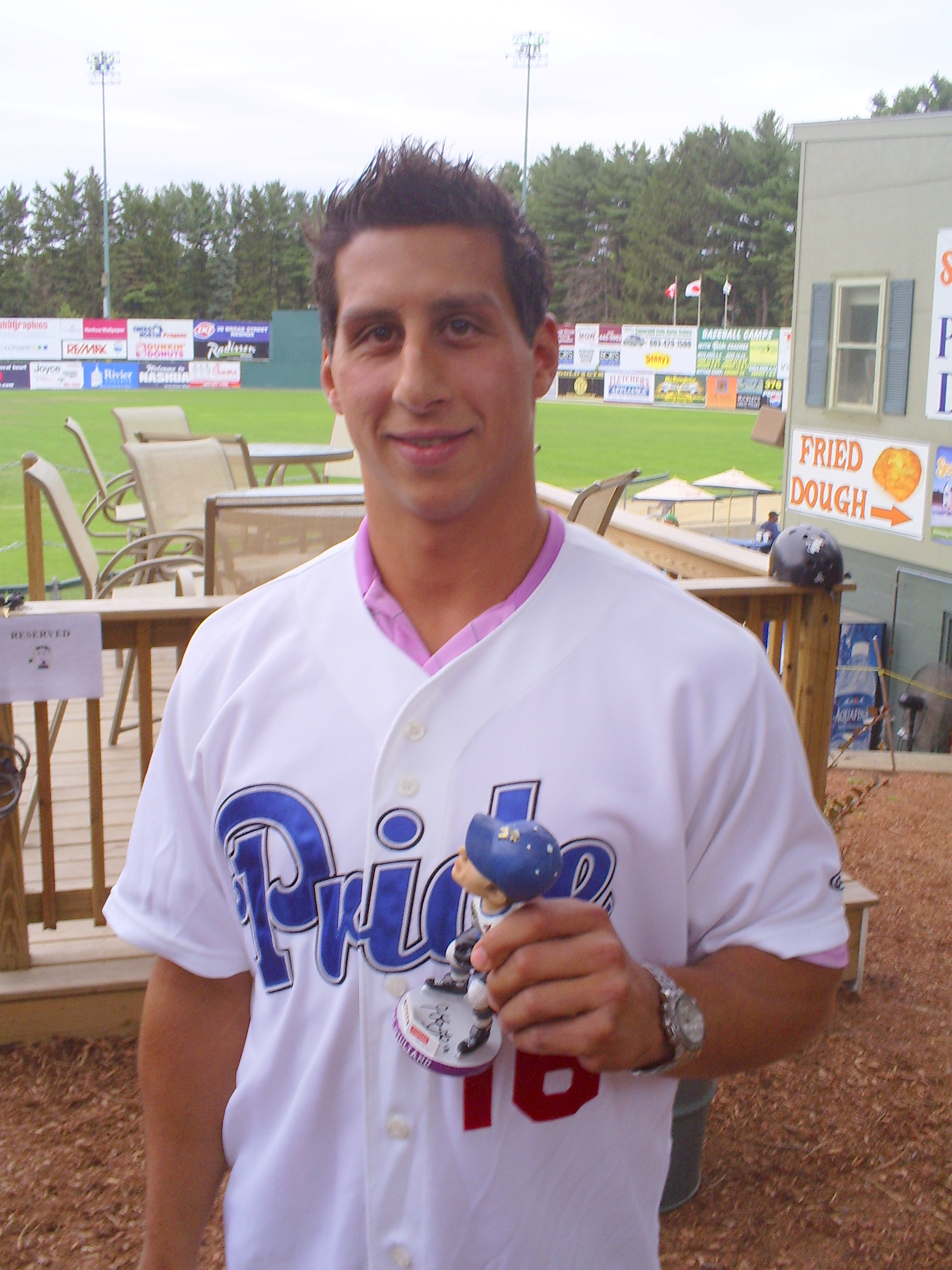 Jeff Giuliano. This was at a Nashua Pride Baseball game in which the giveaway that night was a Jeff Giuliano bobble head like the one he is holding